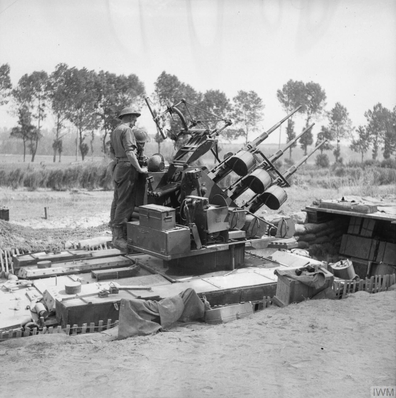 IWM caption : THE BRTISH ARMY IN NORTH-WEST EUROPE 1944-45; Crusader AA tank mounting a triple Oerlikon gun in a hull-down position